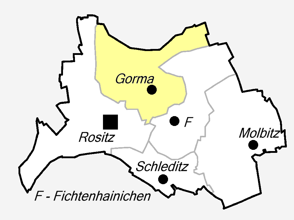 District-Maps of Gorma in Rositz village.